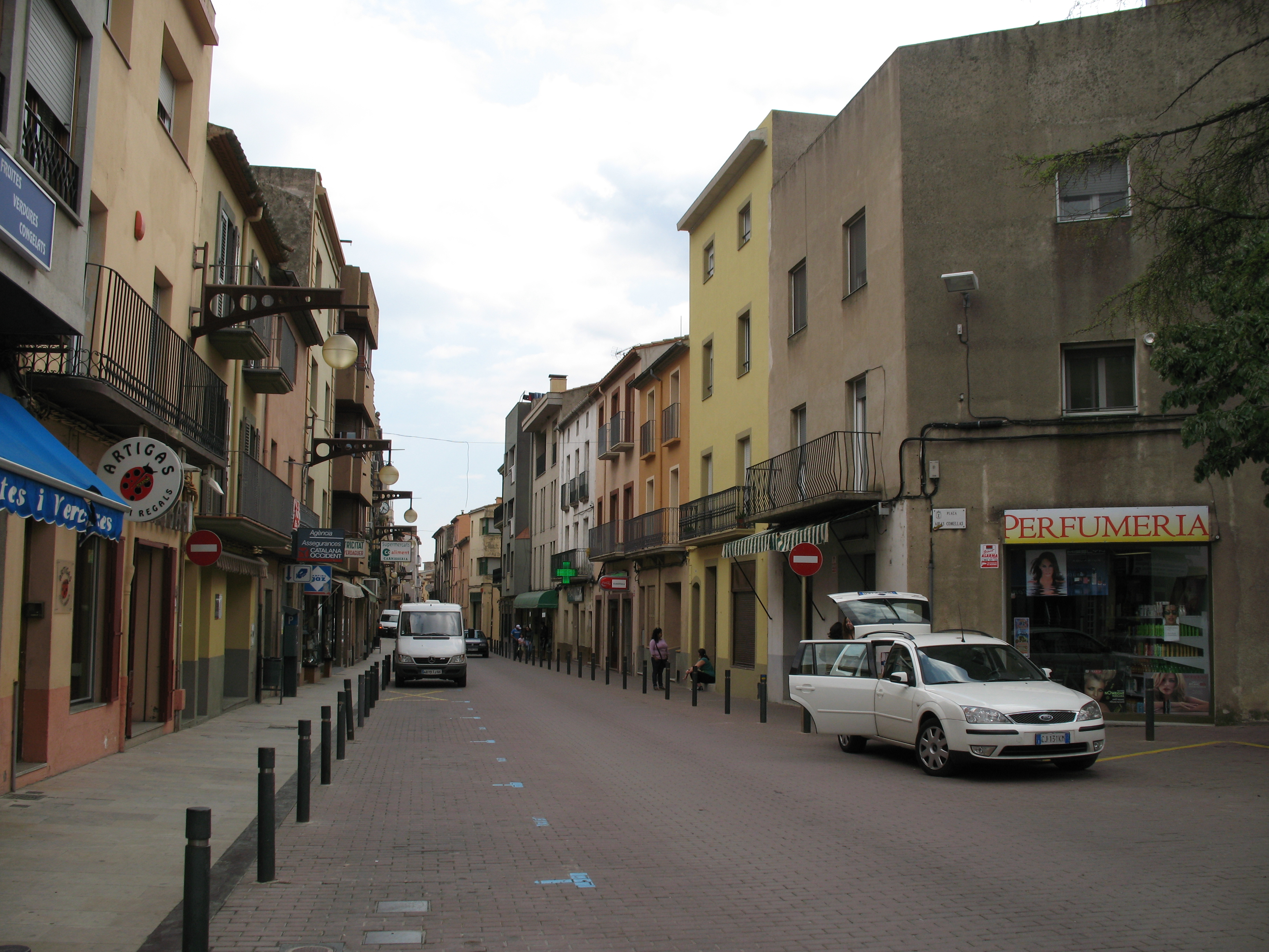 Old route of the spain road N-II on La Junquera (before 1962).